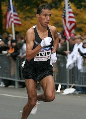 Khalid Khannouchi in 2007 New York City Marathon